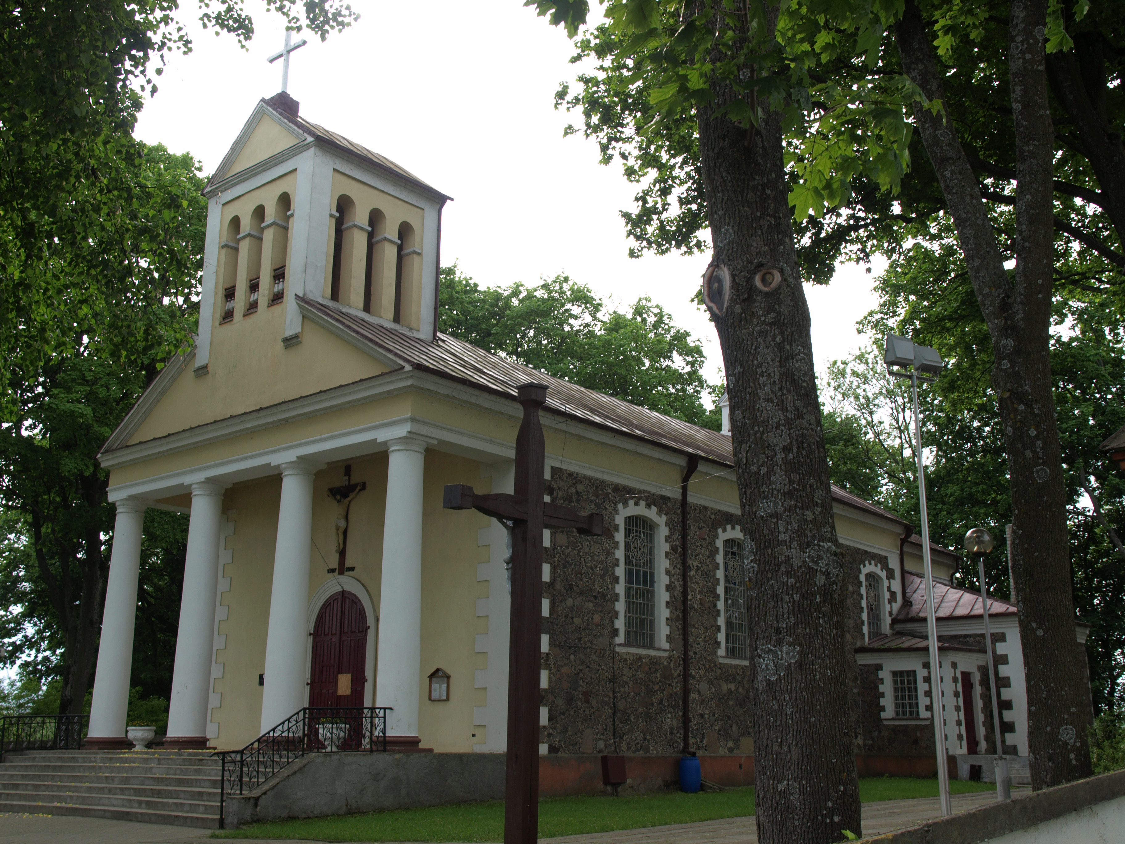 Alytus Sanct Louis church, Alytus, Lithuania